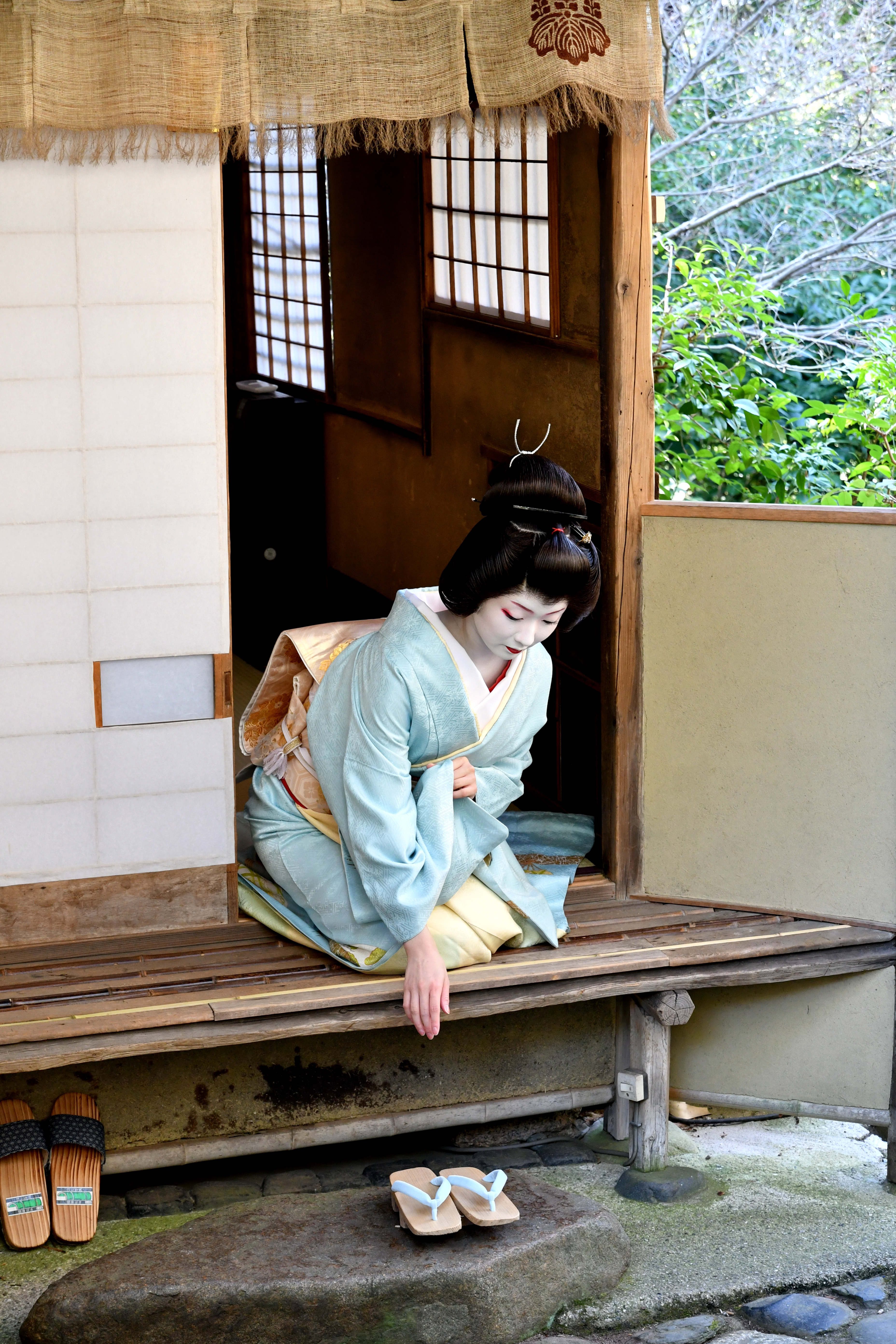 【Geiko, February 18, 2018】 Geiko is Toshimana. Shooting location is Saami. Photo by tugumi yoshikawa. 【芸妓, 2018-02-18】 芸妓はとし真菜さんです。 撮影場所は左阿彌。 Photo by tugumi yoshikawa. If you use this image, please attribute it with a link . 写真の転載について：写真の転載・使用は歓迎いたしますが、その際に必ず へリンクいただくようお願いします。